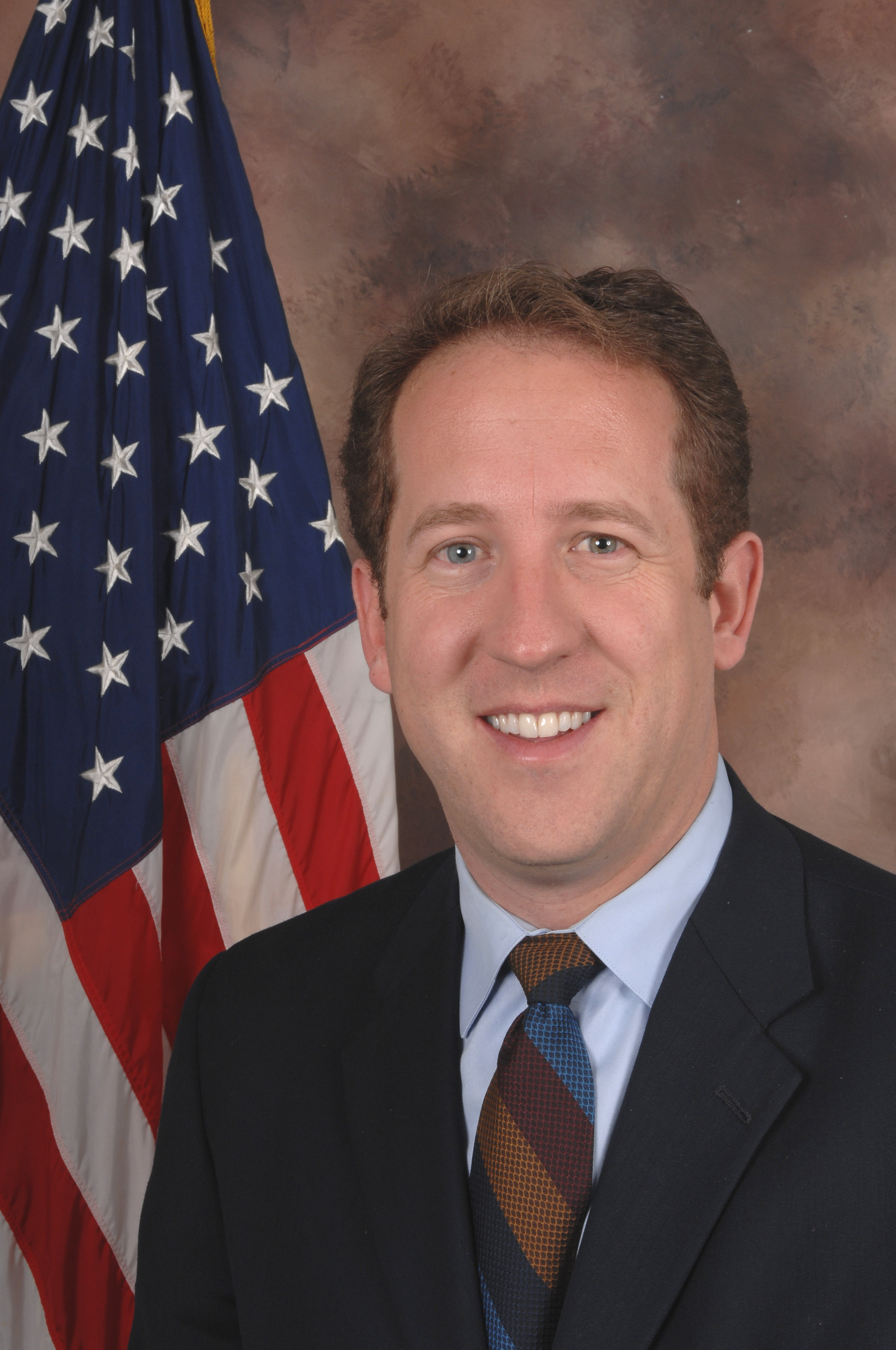 Adrian M. Smith, member of the United States House of Representatives.